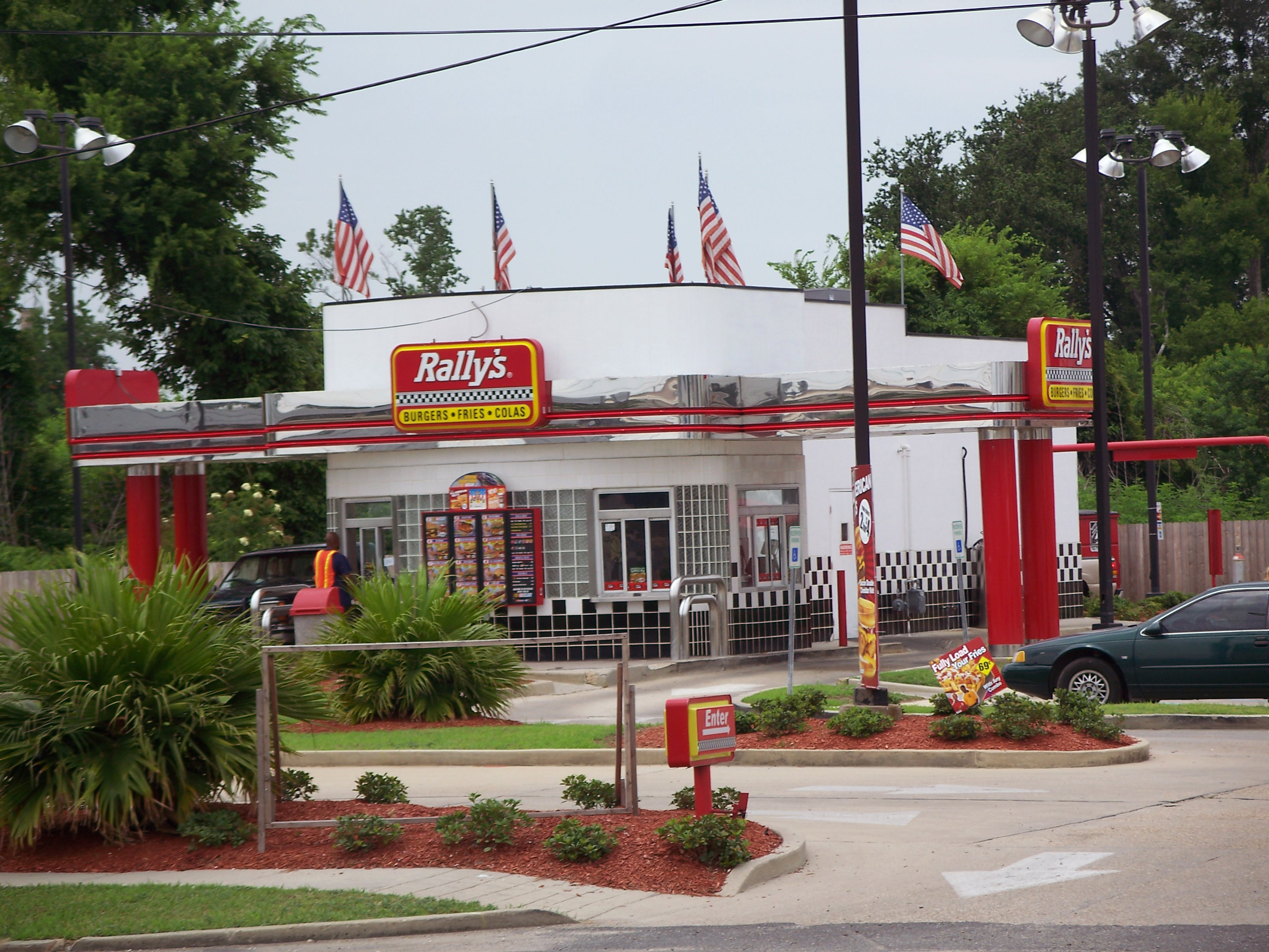 Rally's drive through restaurant, Louisiana.